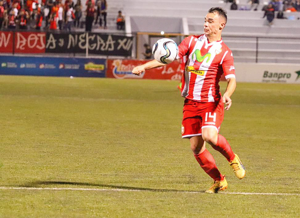 Pablo Gállego jugando para el Real Estelí